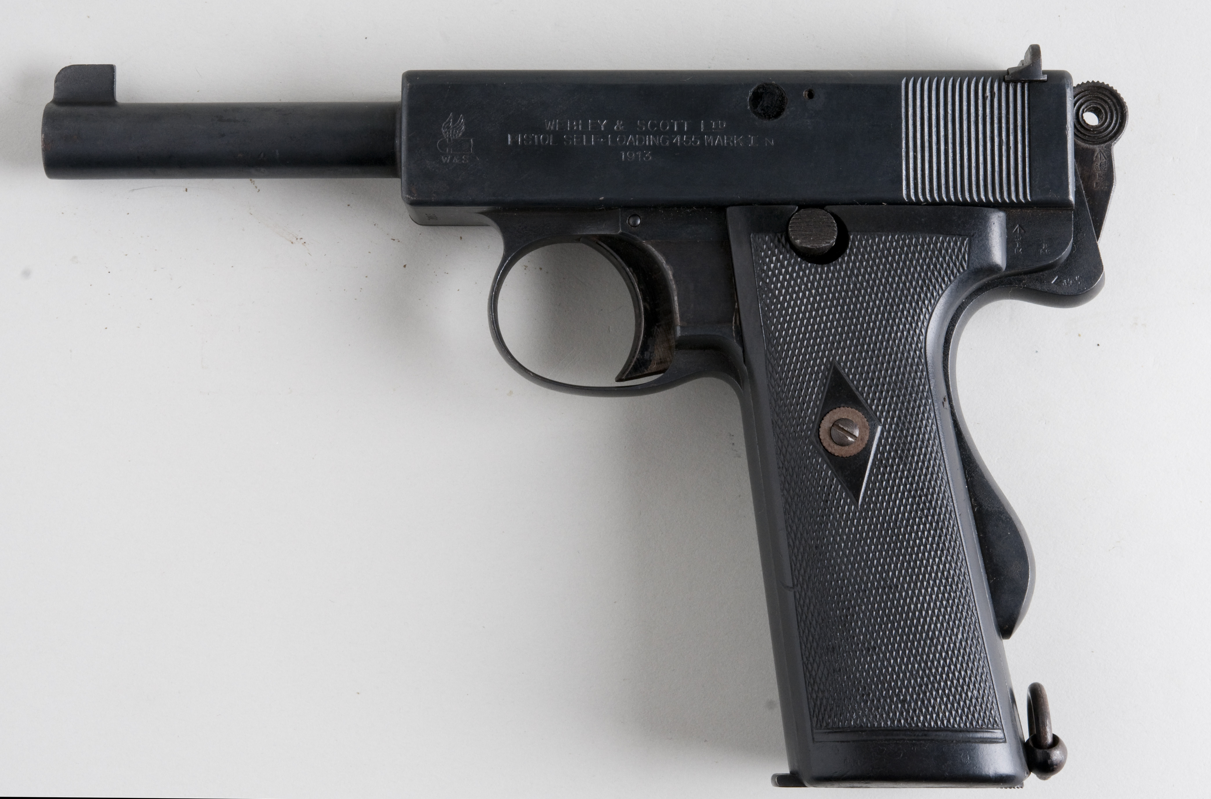 Webley & Scott 455 From flickr user handvapensamlingen - Pistols used in Norway.